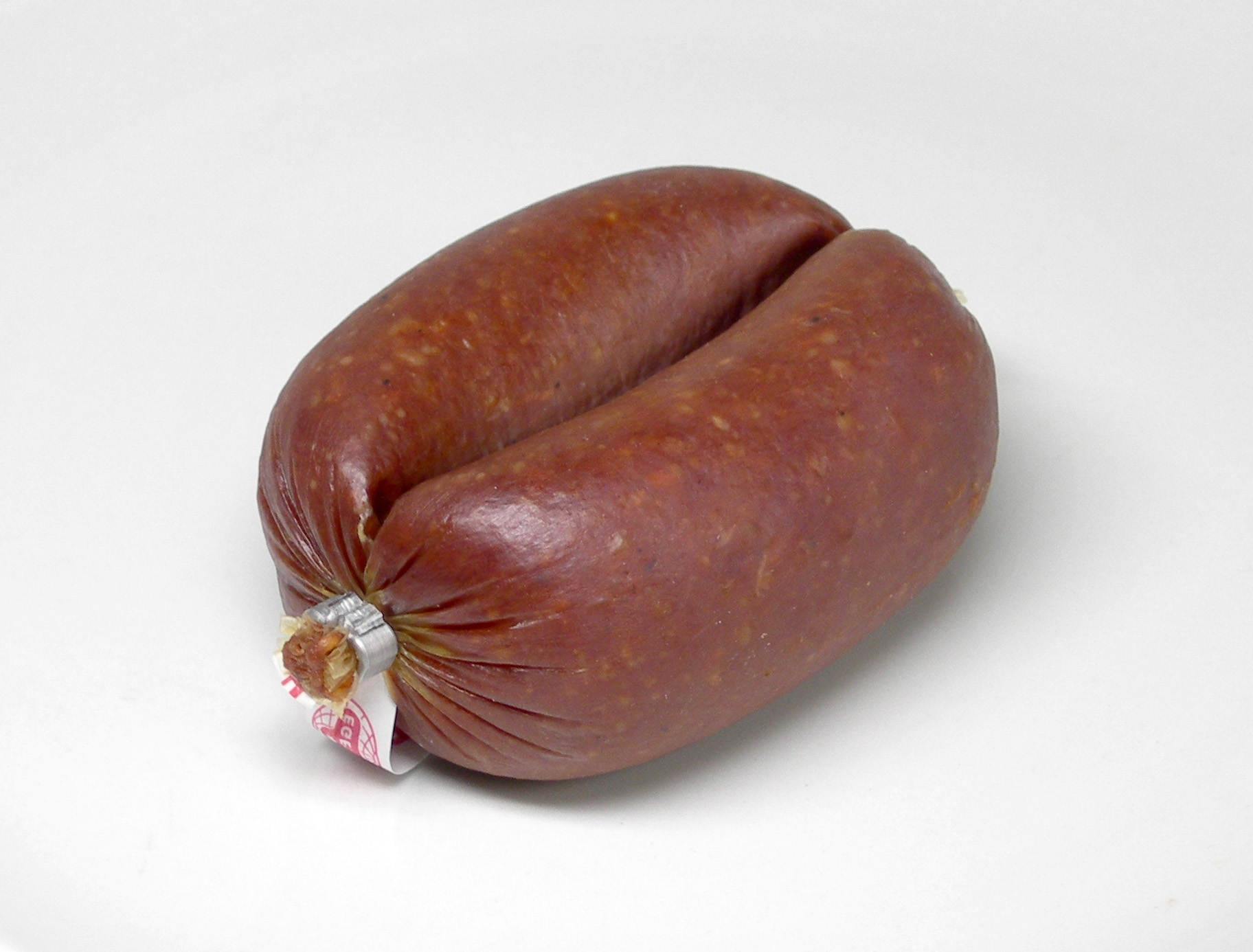 Turkish sucuk (industrially produced), made of beef, mutton and lamb, minced with garlic, cumin and chili